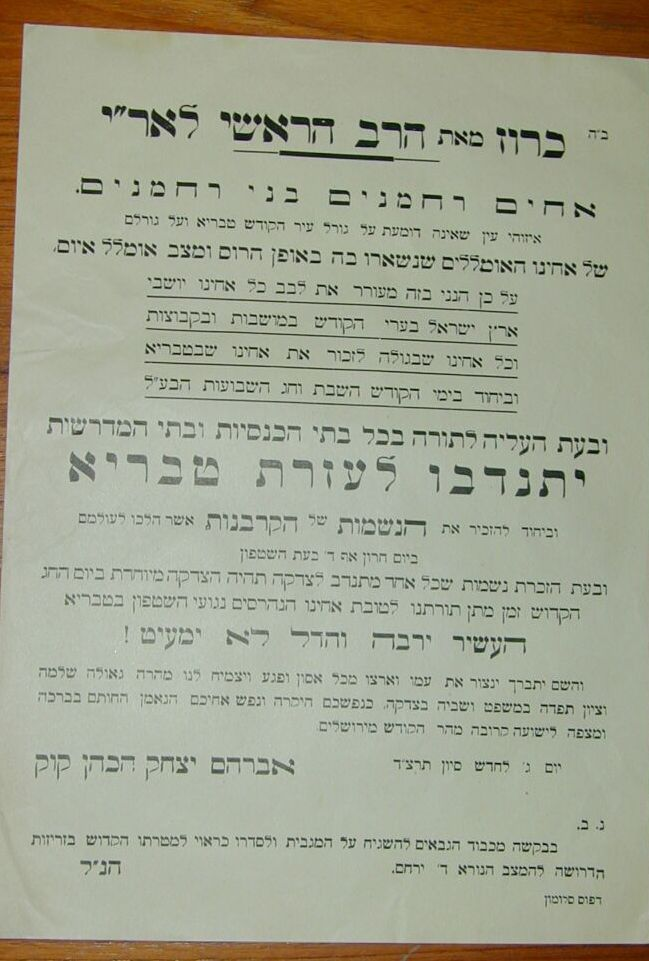 Call of Chief Rabbi A Y Kook, to help Tiberia's Jews, due the flood , 1934